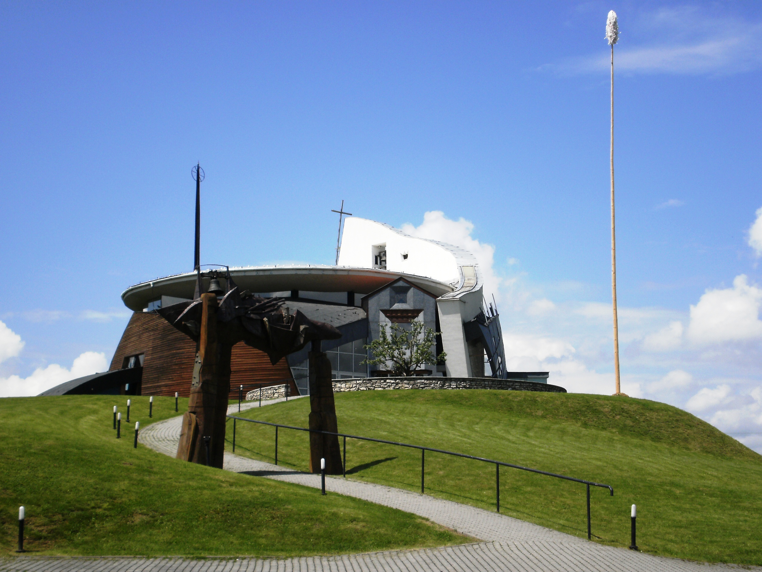 Archa Locus